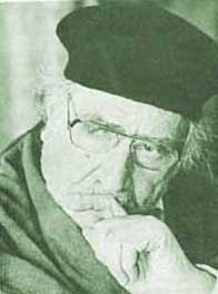 Mohit Tabatabie